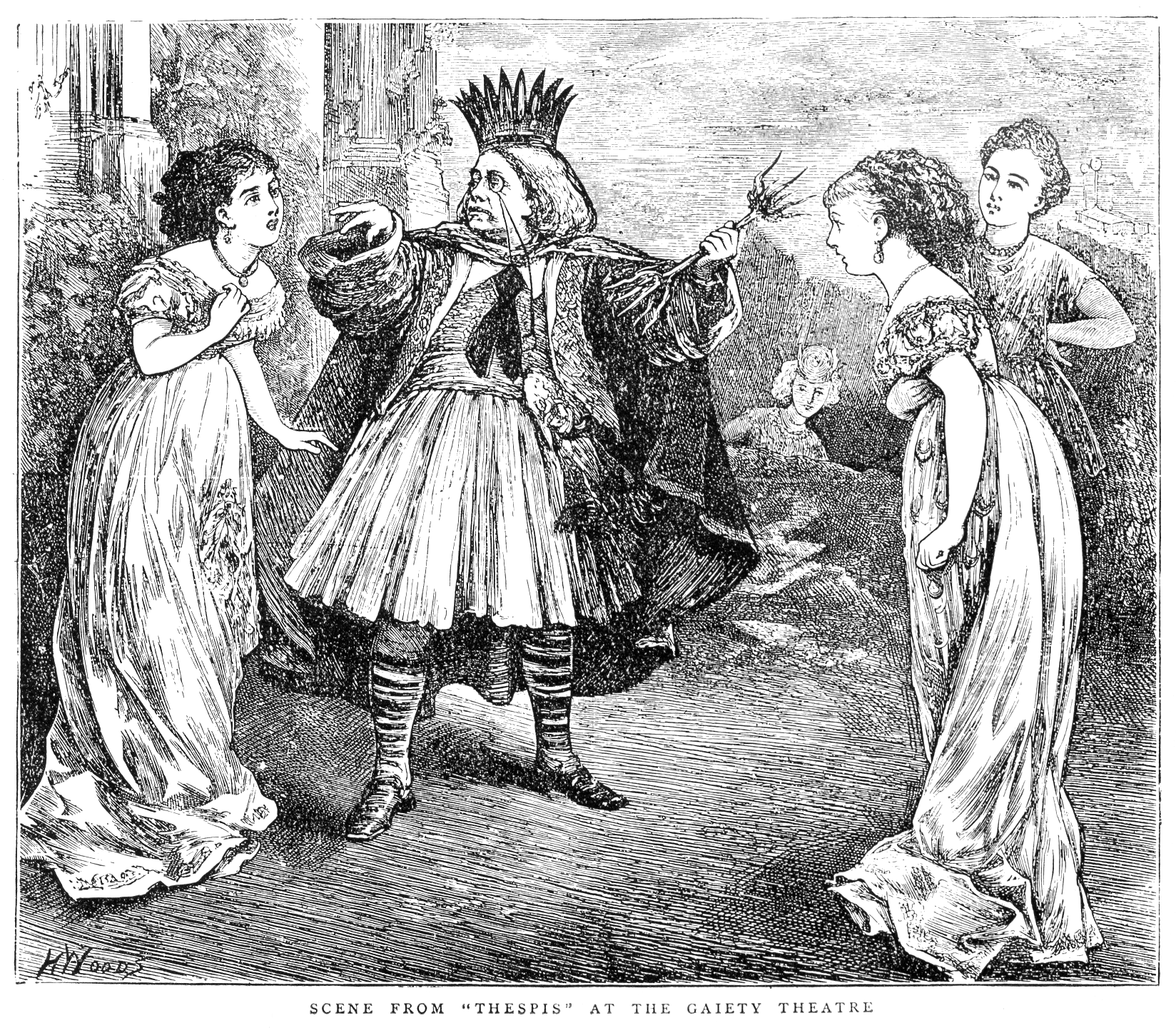 Engraving of Gilbert and Sullivan's Thespis from The Graphic of 10 February 1872. Shows the scene near the end of "You're Diana, I'm Apollo"